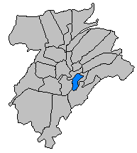 Map of Luxembourg City, Luxembourg, with the boundaries of the city's twenty-four quarters demarcated and the quarter of North Bonnevoie-Verlorenkost highlighted in blue.